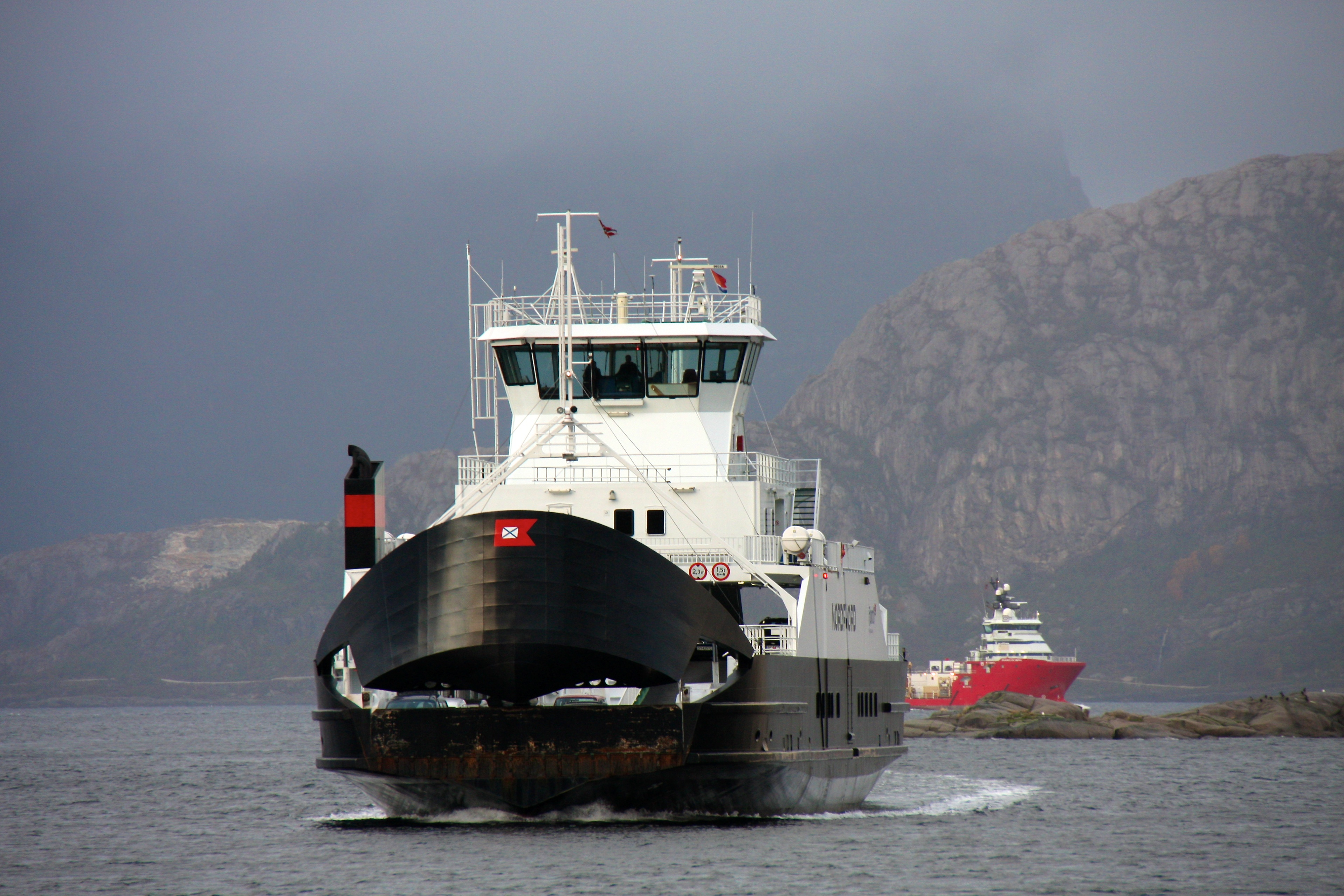 MF Nordfjord in Rutledal in Gulen municipality, Norway.